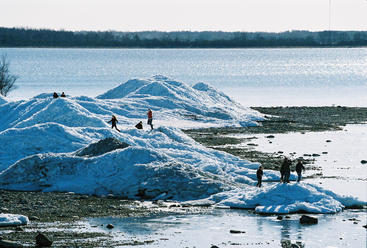 Puhtulaid, Lääne County, Estonia